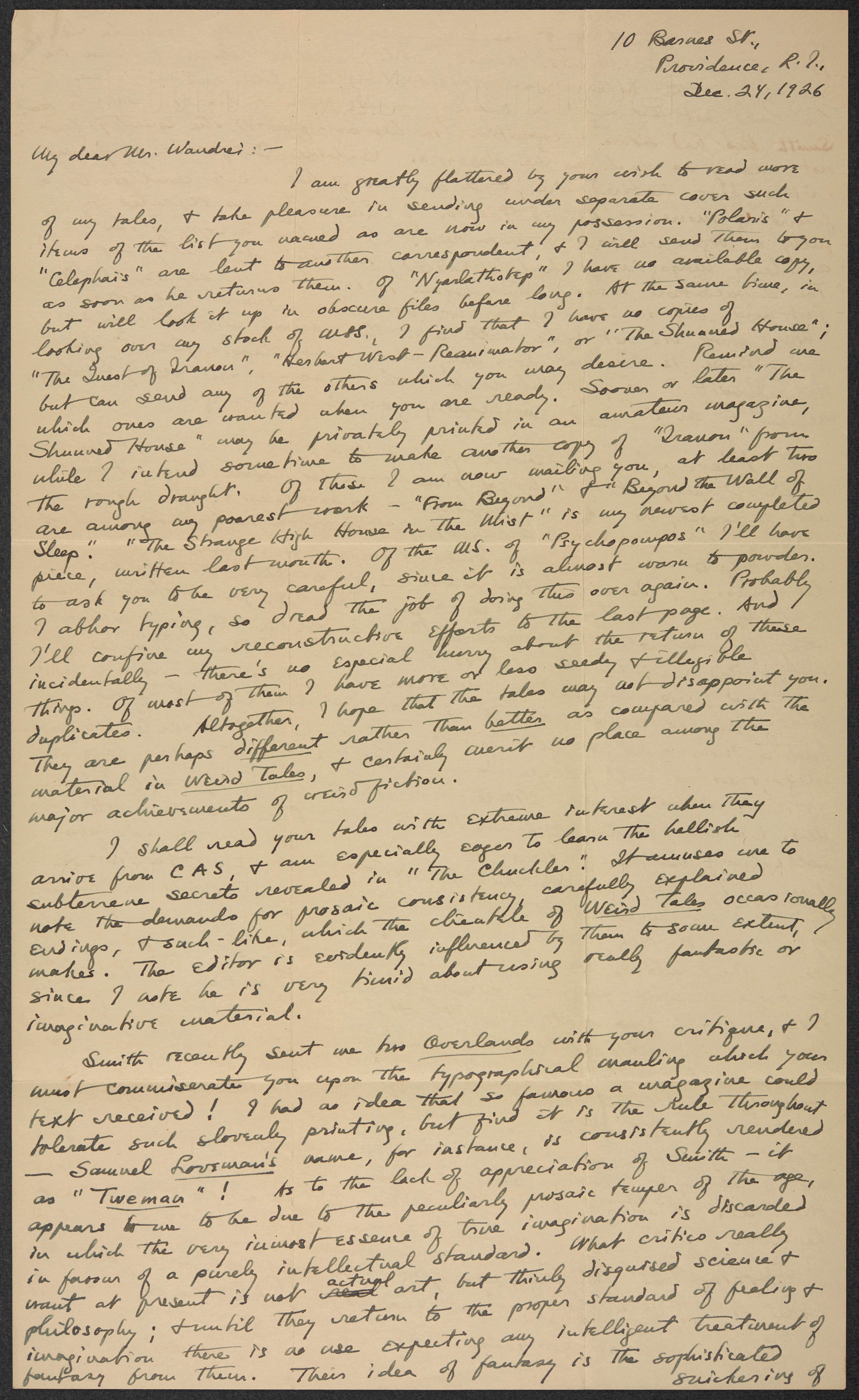 Letter from H. P. Lovecraft to Donald Wandrei.